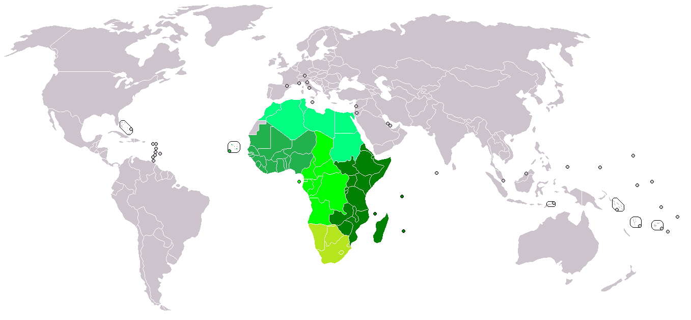 UNECA members